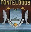 Badge of Tonteldoos, a settlement in South Africa.